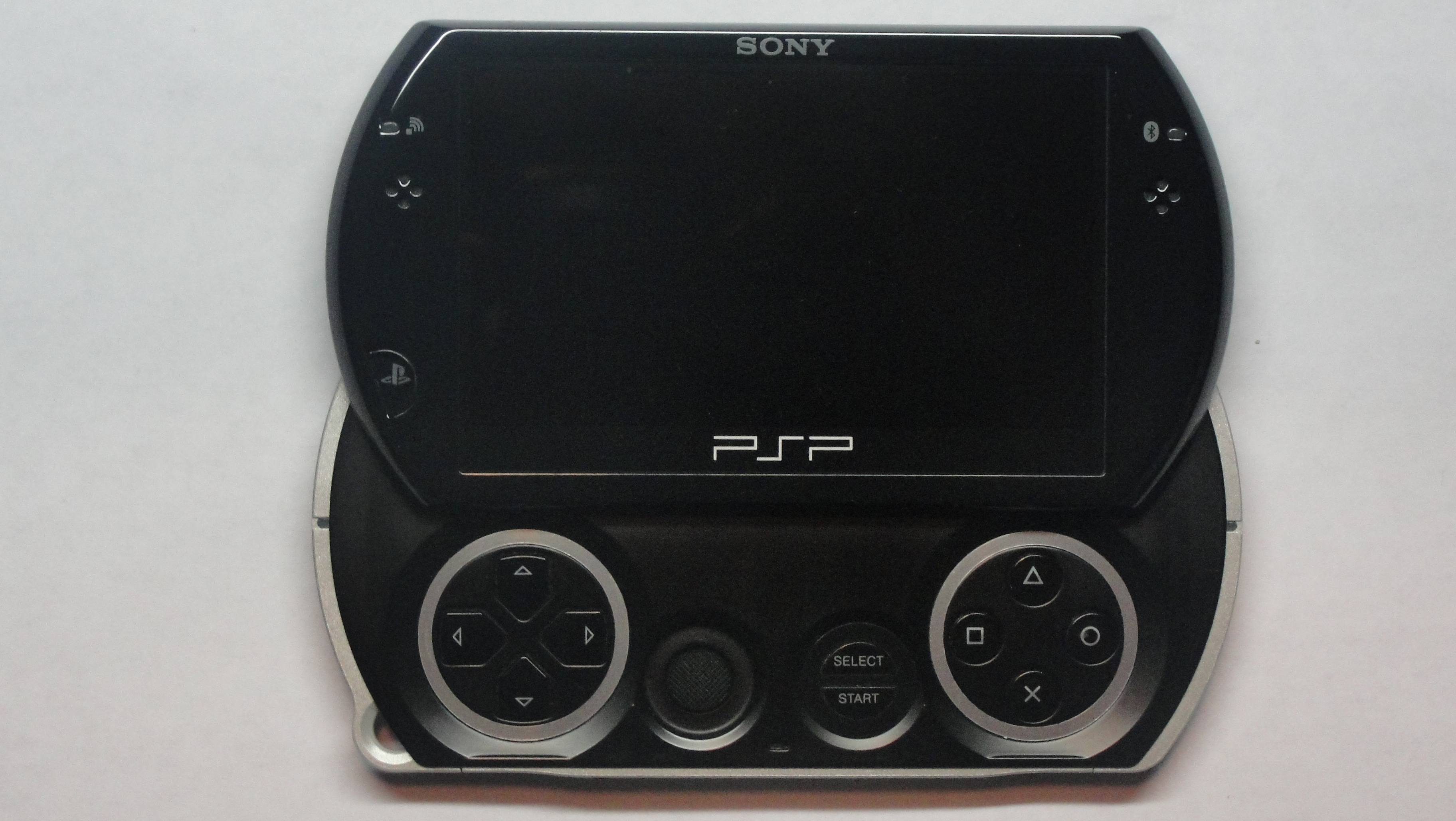 Piano black PSP Go.